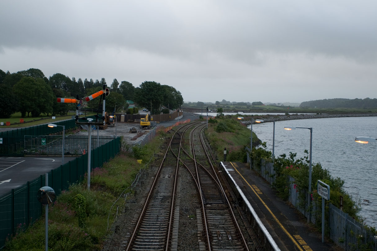 Looking from the footbridge in the station towards what will be the new junction.